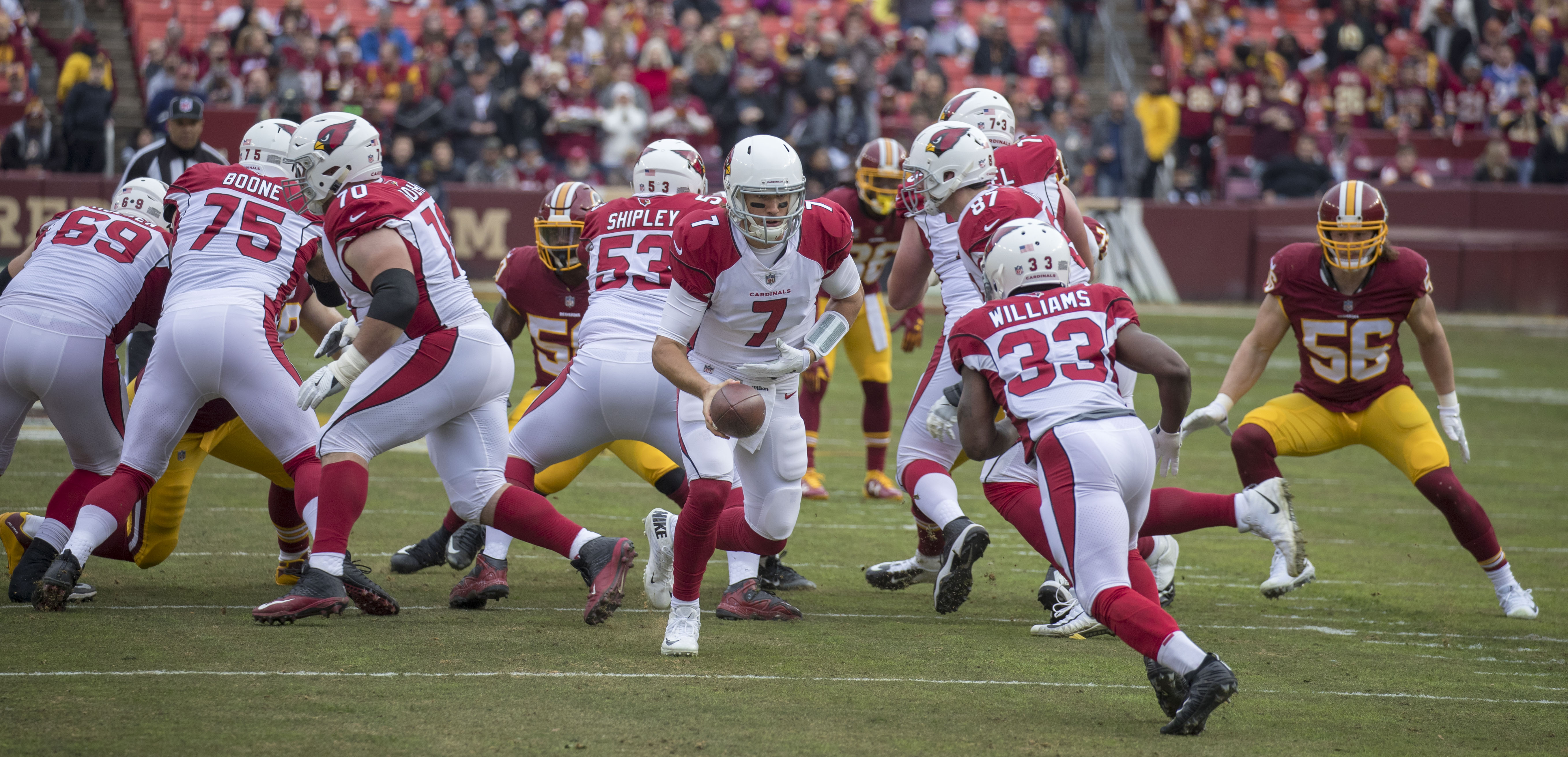 Cardinals at Redskins 12/17/17